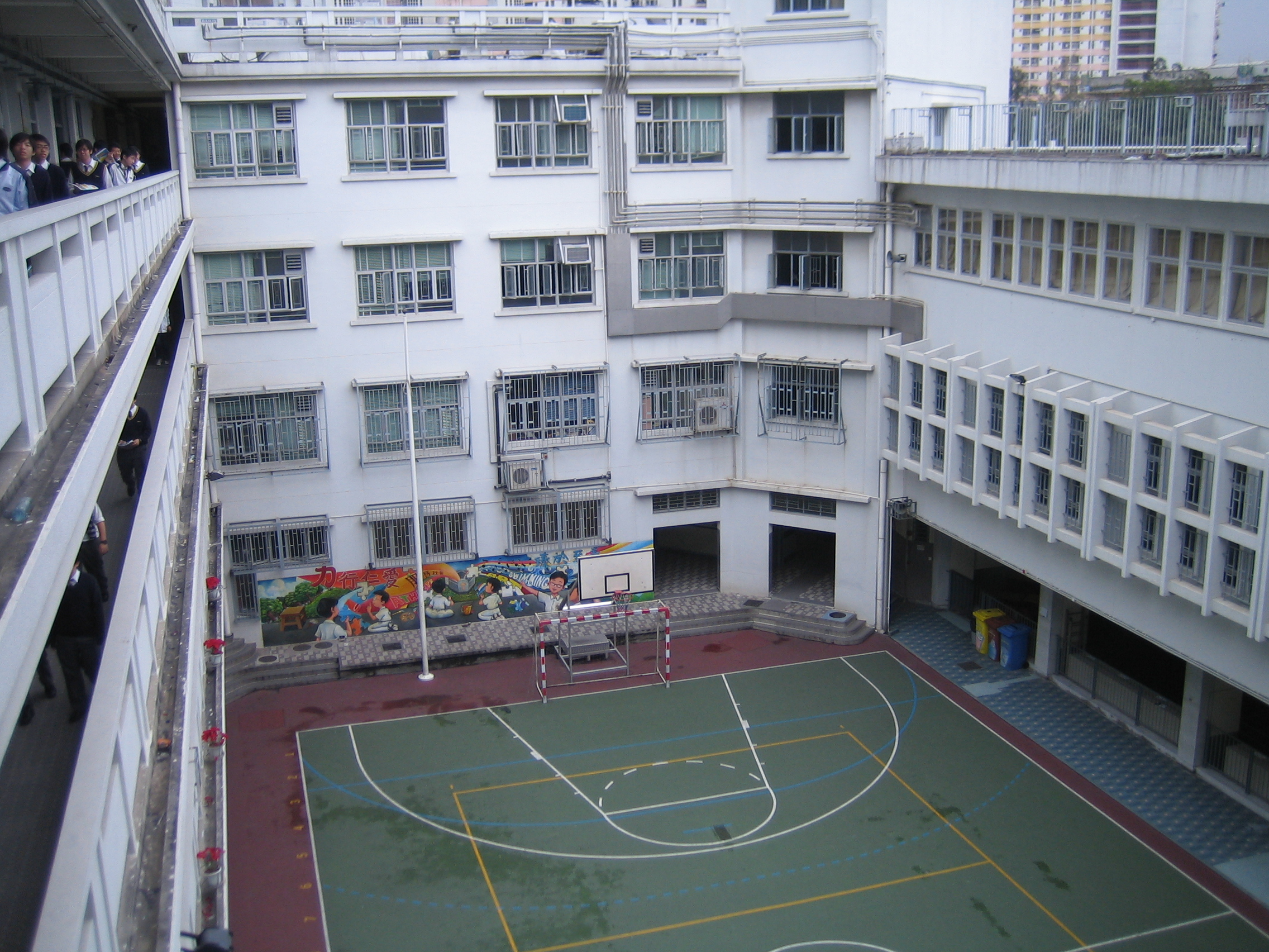 This image is SJACS campus, Hong Kong. If you have any questions about the licensing (like cc-by-sa, GFDL), or you want to republish the image without using the licensing shown as below, you are welcome to leave a message on the User Talk Page of my Chinese Wikipedia account. 中文（香港）: 這照片是香港九龍聖若瑟英文中學現有校舍。 如你對這照片版權許可協議 (例cc-by-sa, GFDL) 有疑問，或你想把照片不用以下的版權協議轉載，歡迎你到我在中文維基百科的用戶對話頁留言。